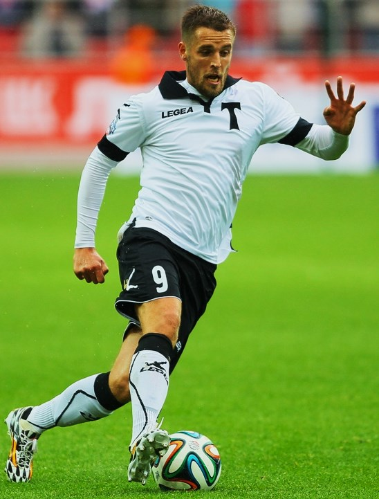 Kirill Kombarov